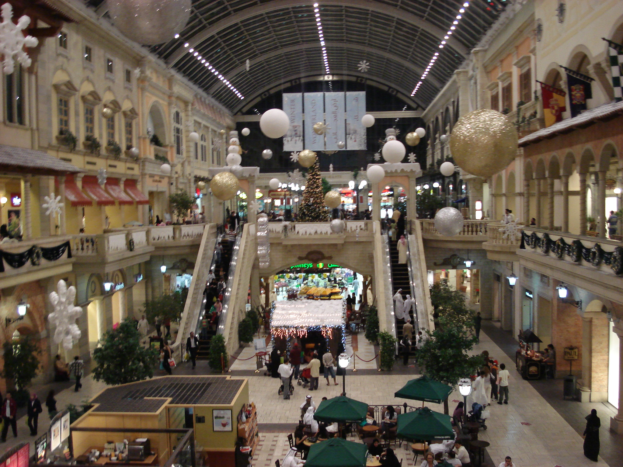 Mall Of the Emirates